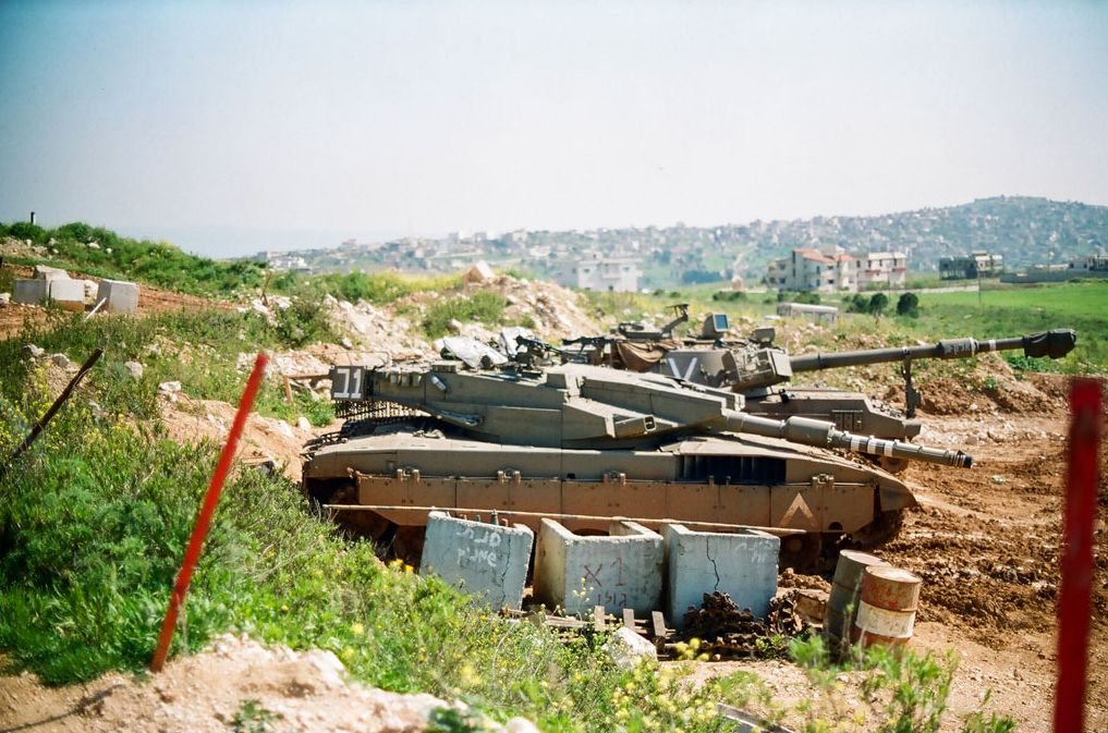 מבט ממוצב שרייפה בדרום לבנון לכיוון דרום-דרום-מזרח לרחבת הרק"מ - ברקע אל-חיאם התמונה צולמה על ידי שחר